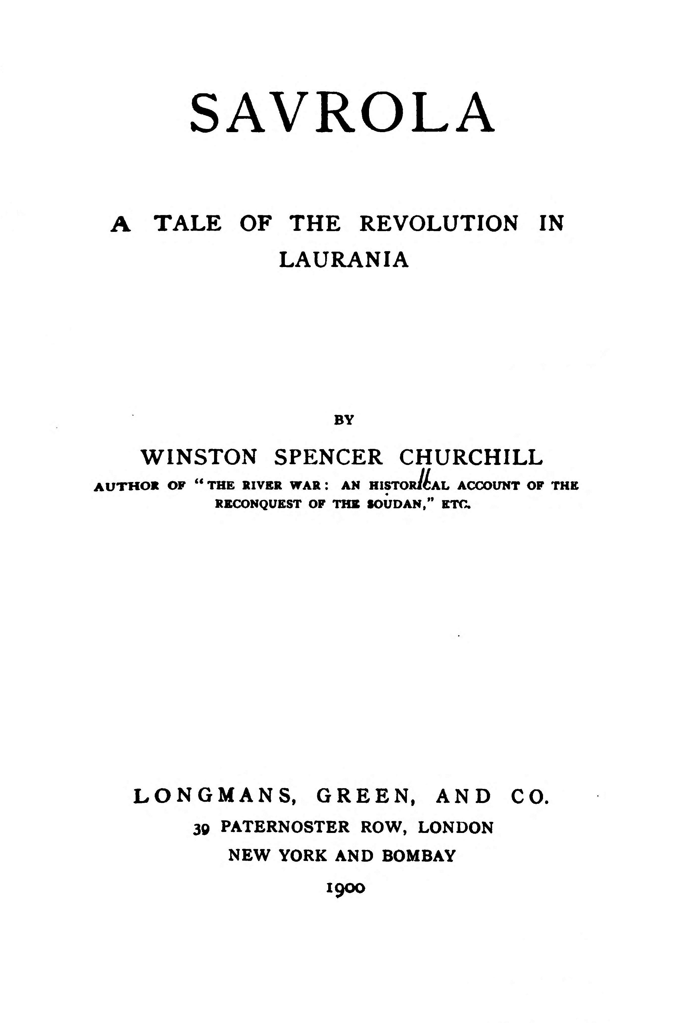 Title page of Savrola (1900 edition) by Winston S. Churchill